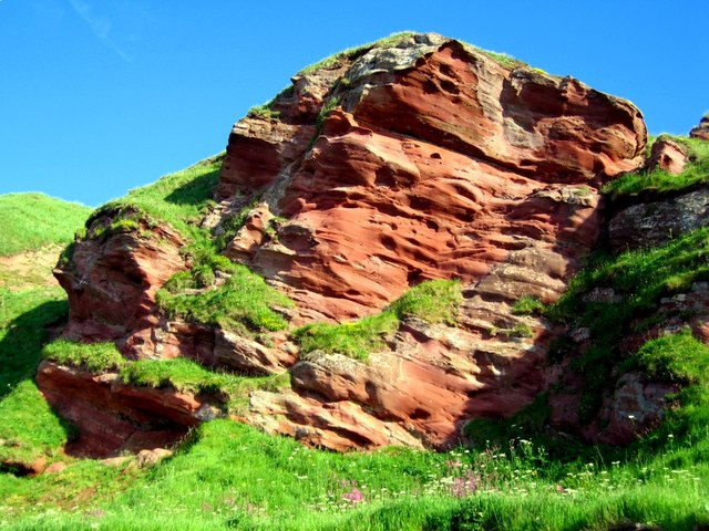 Gardenstown Old Red Sandstone. Tilted exposure of Old Red Sandstone at the top of the shore at Gardenstown.